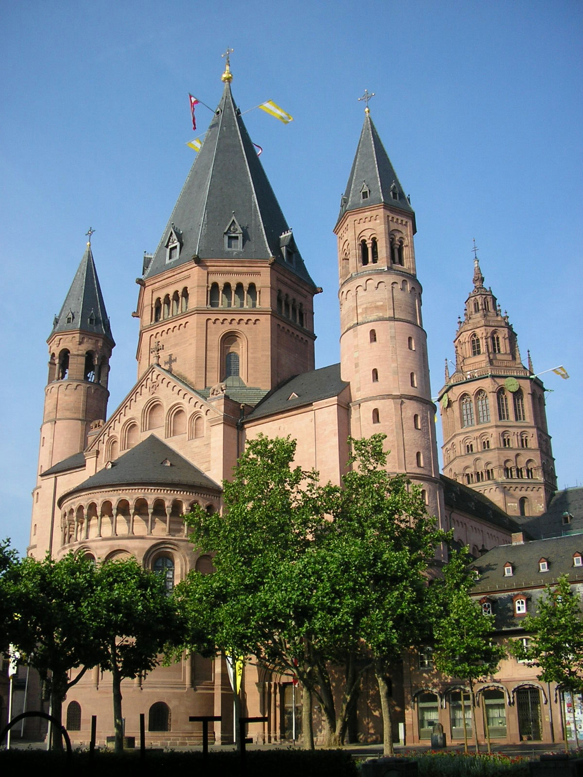 North-Eastern facade of Mainz cathedral, comprising Liebfrauenplatz